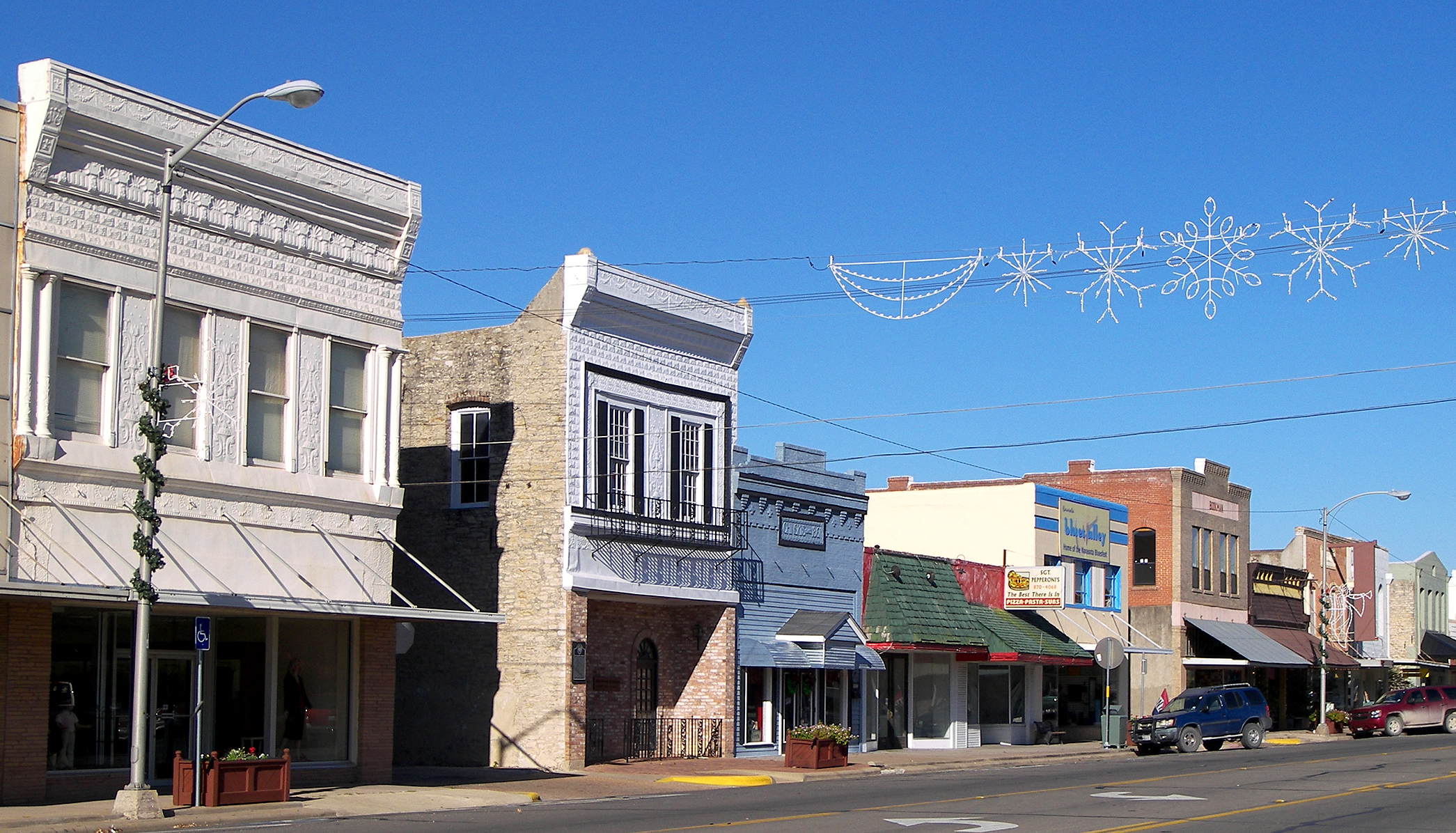 Downtown Navasota, part of the Navasota Commercial Historic District, Navasota, Texas, United States. The district was added to the National Register of Historic Places on November 30, 1982.